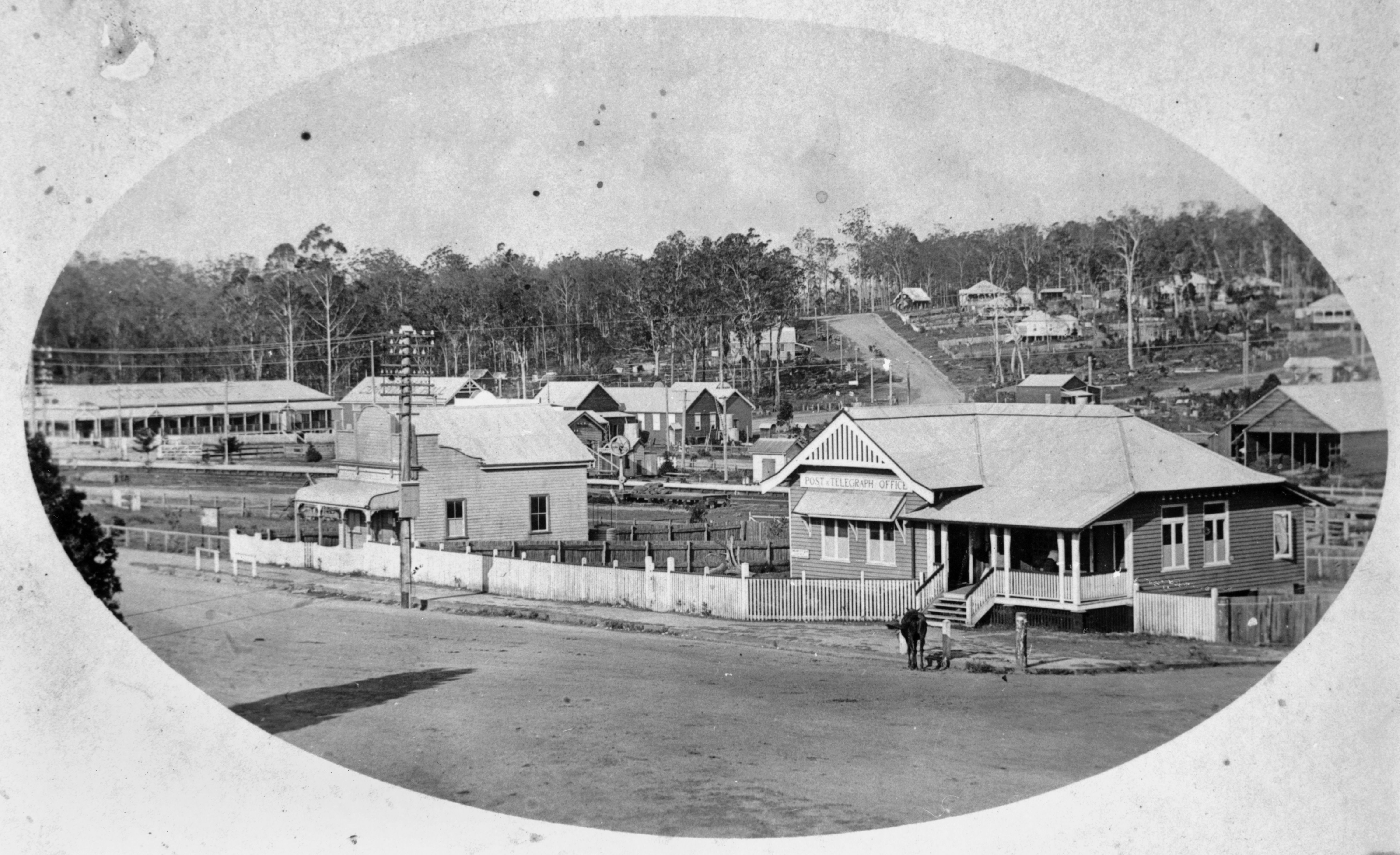 Cooroy Post and Telegraph Office, circa 1912